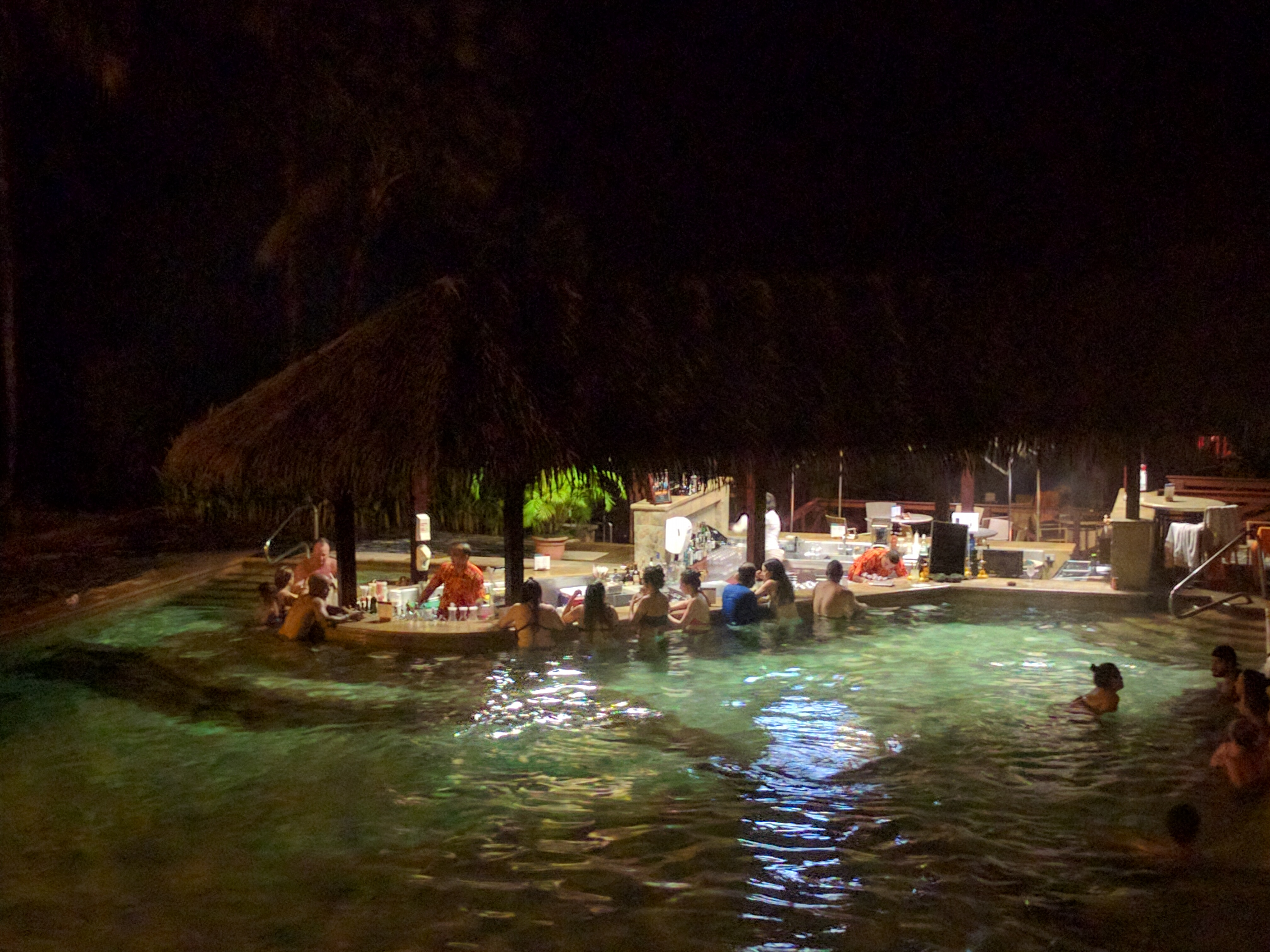 A bar attached to a pool fed from a geothermal hot spring at Tabacón Grand Spa.